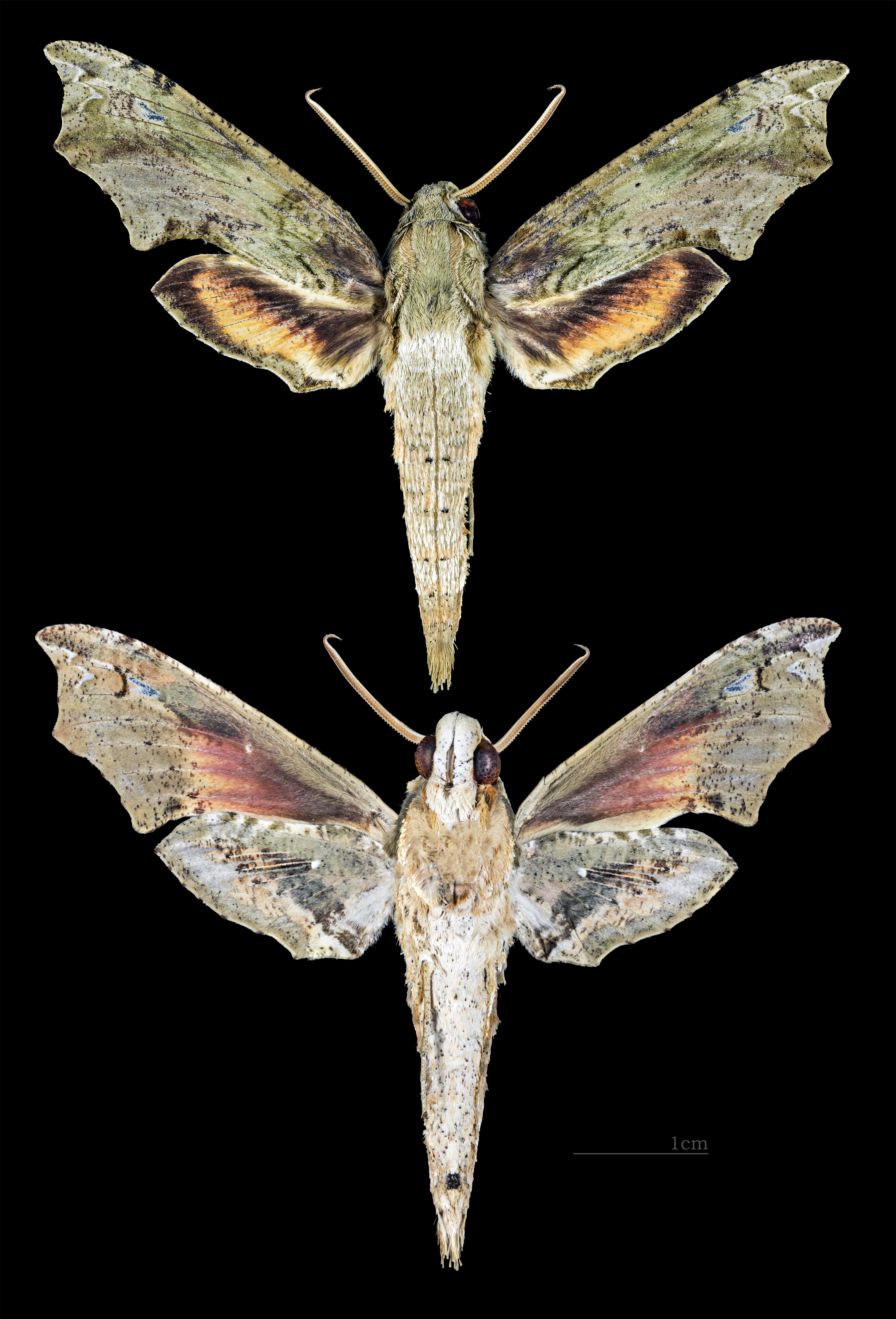 Eupanacra splendens - Two views of same specimen Collection of the Mathematician Laurent Schwartz